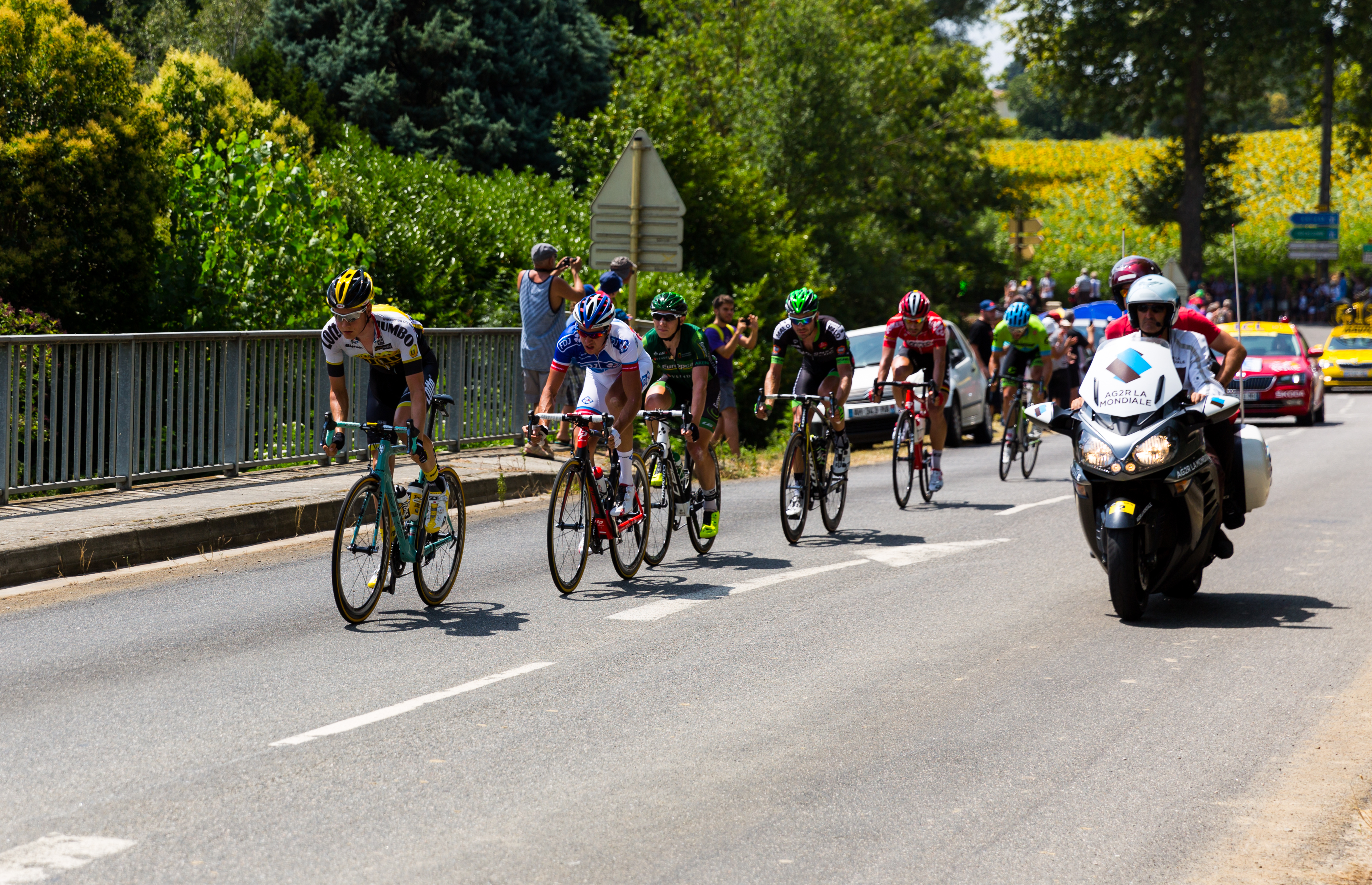 The day's break included Wilco Kelderman (TLJ), Alexandre Geniez (FDJ), Cyril Gautier (EUC), Pierre-Luc Périchon (BSE), Thomas De Gendt (LTS) et Nathan Haas (TCG).